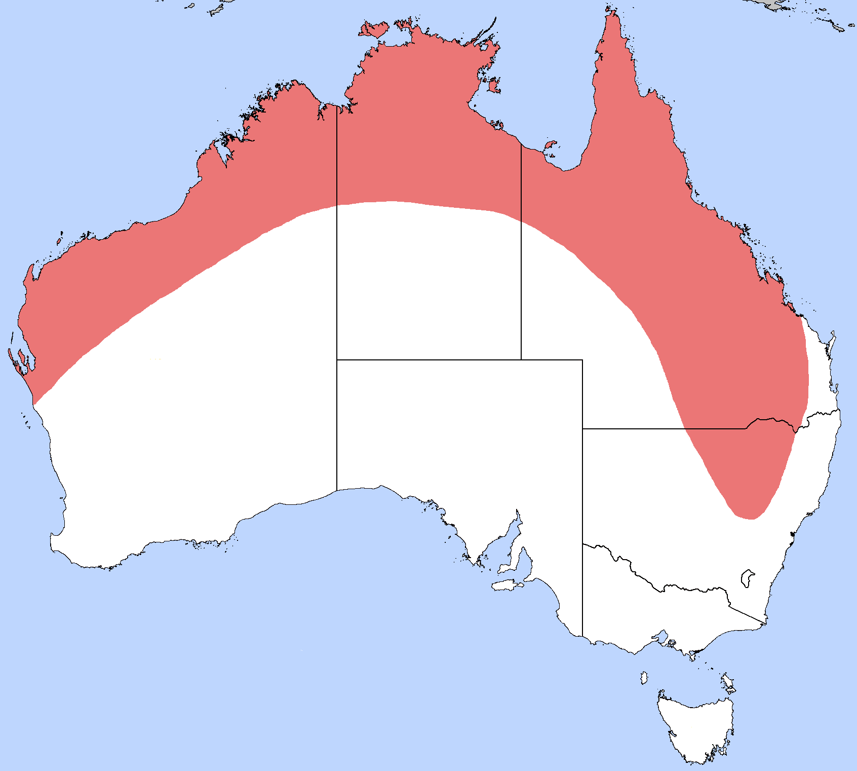 Distribution map of the Giant Grasshopper (Valanga irregularis) drawn after: Giant or Hedge grasshopper: Valanga irregularis (nymph), Department of Agriculture, Fisheries and Forestry, Australian Government